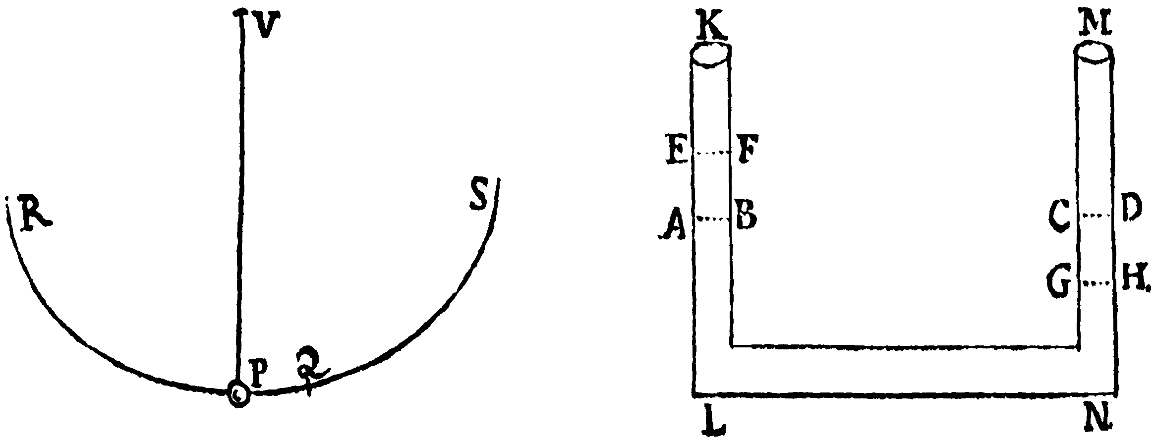 Principia1686